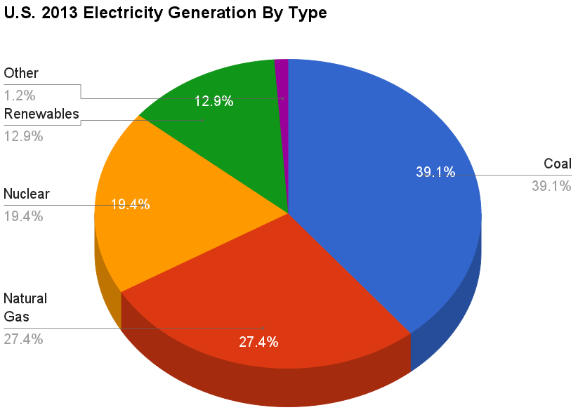 U.S. 2013 Electricity Generation By Type.